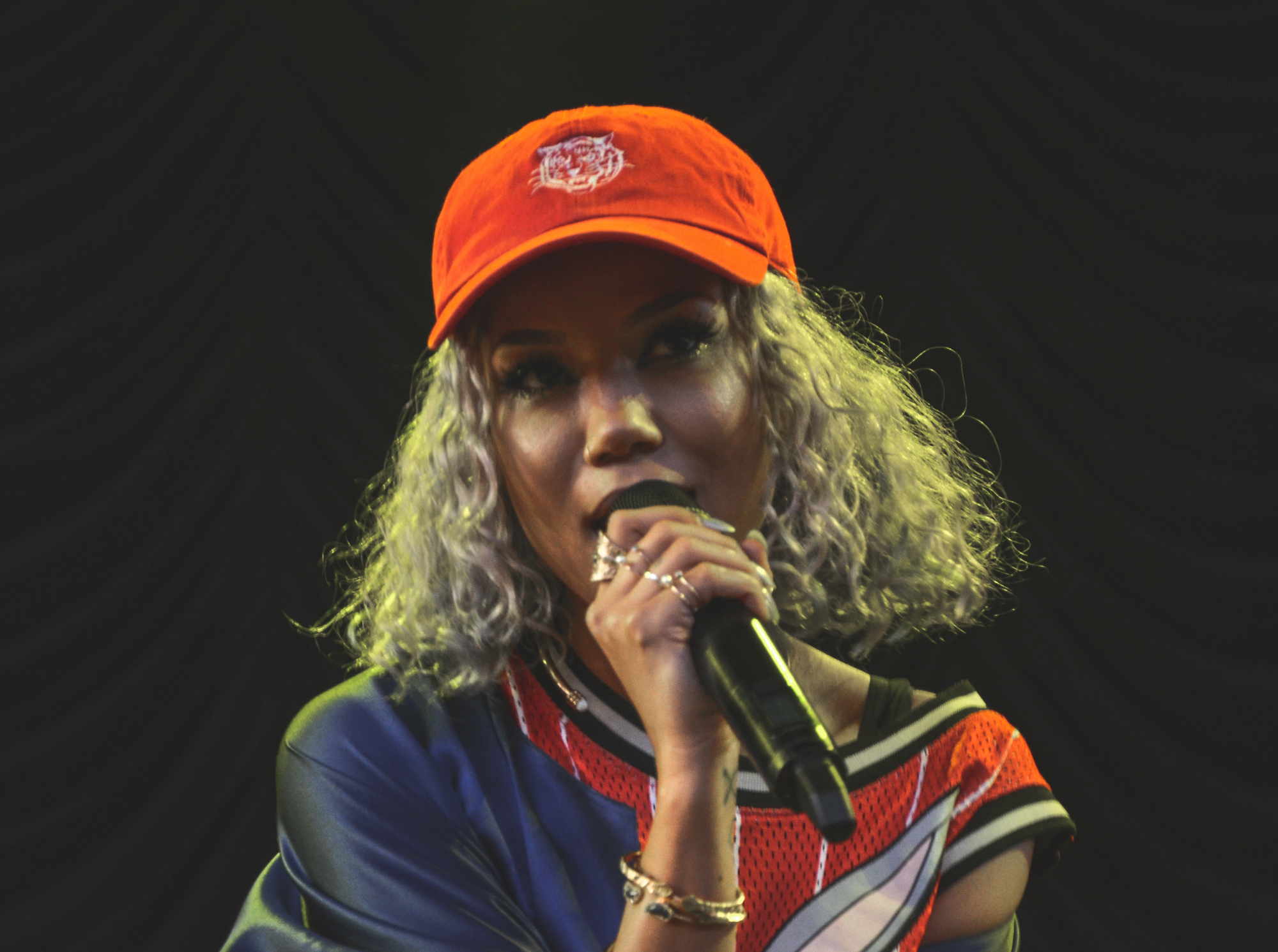 The High Road Summer Tour 2016 at the Molson Canadian Amphitheatre featuring Snoop Dogg, Wiz Khalifa, Jhené Aiko, Casey Veggies and Dj Drama. Photography by Charito Yap